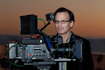 Director Robert Tur with his Arri Alexa-Plus digital cinema camera On the set of the TV series SIS.